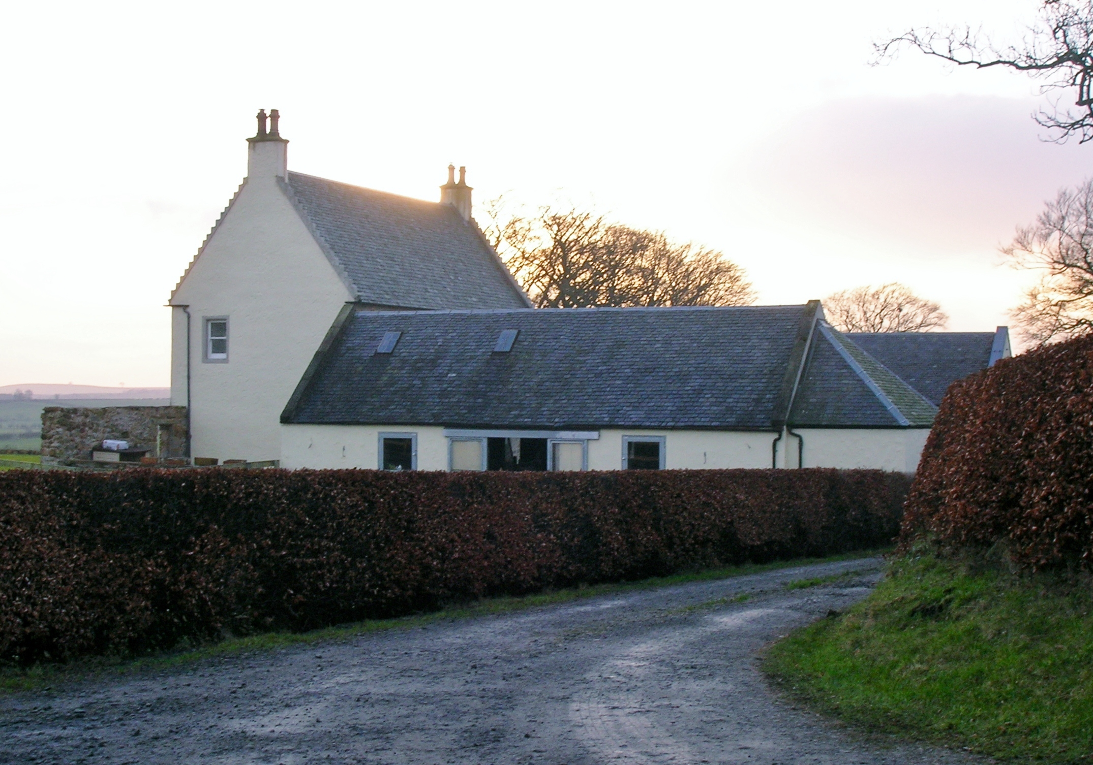 The old lairds house of Bruntwood overlooking the loch site, East Ayrshire, Scotland.